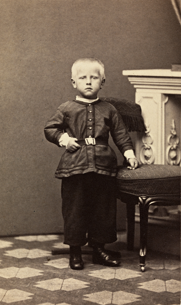 Fridtjof Nansen (1861-1930) at the age of four